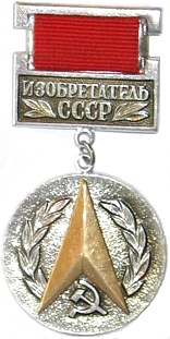 Soviet Inventor Of The Soviet Union Award.